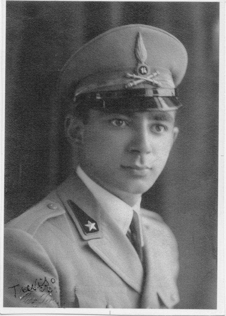 Lt Renato Migliavacca on 1941